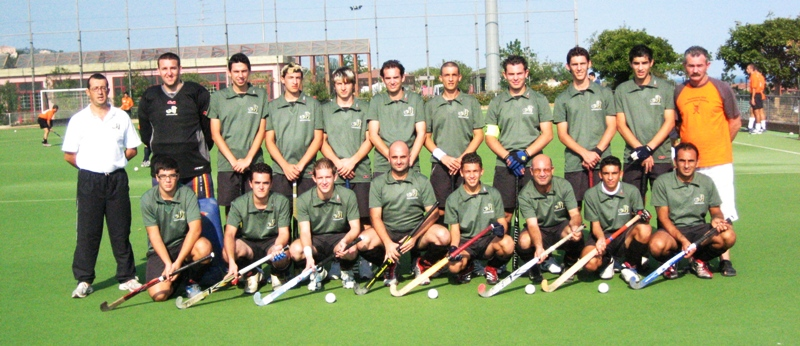 It is a picture of the players and officials of Qormi Hockey Club